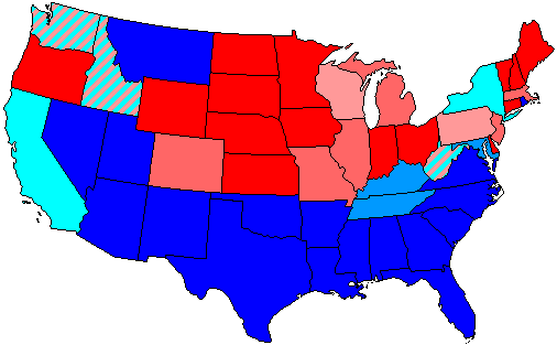 Summary of party control of U.S. house seats in the 78th United States Congress following election. Stripes indicate a tie between two or more parties. Legend: 80.1-100% Democratic seat majority 60.1-80% Democratic seat majority 60% or less Democratic seat plurality 60% or less Republican seat plurality 60.1-80% Republican seat majority 80.1-100% Republican seat majority